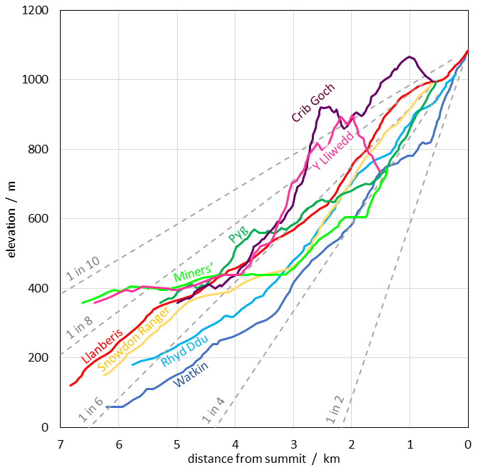 Based on Ordnance Survey 1:25000 mapping. Note that there is no absolute definition of these paths so some sources give different start points.